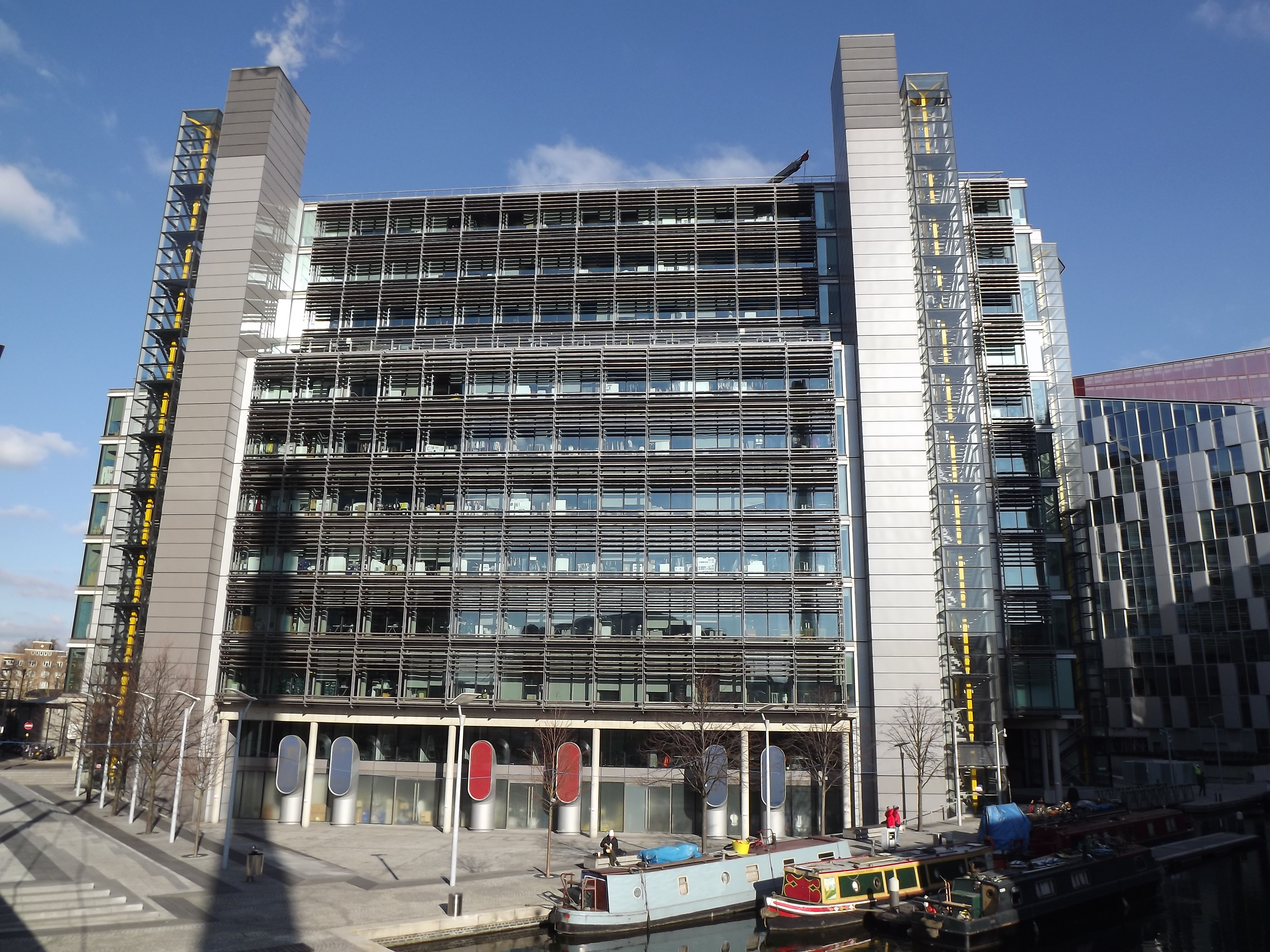 Paddington Waterside, a new development at Paddington Basin, London